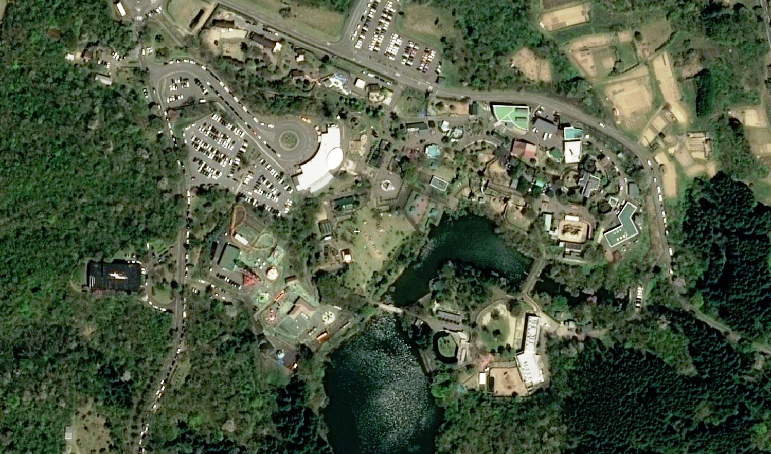 Omoriyama Zoo